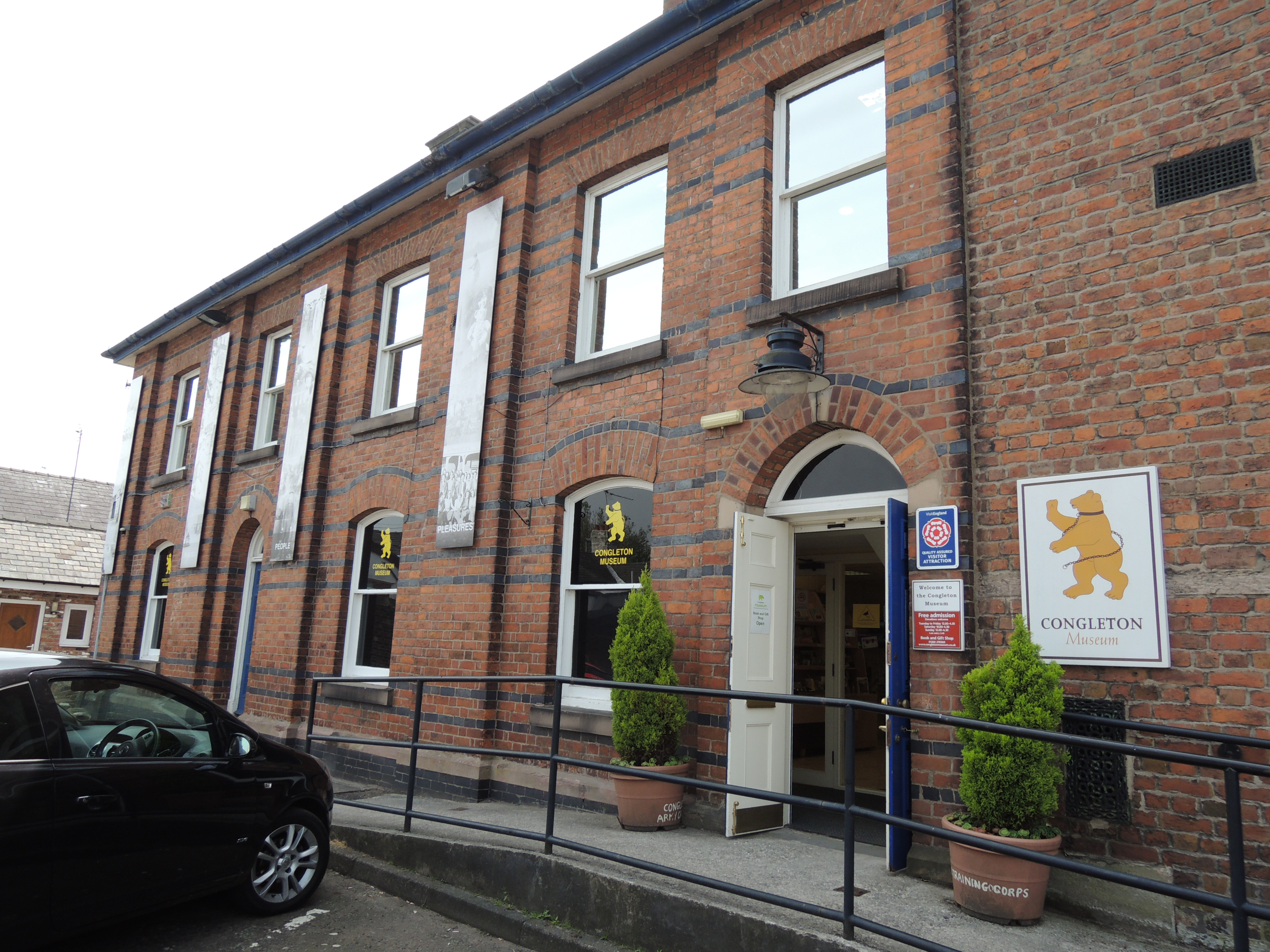 front facade, Congleton Museum, Market Square, Congleton, Cheshire East, England, United Kingdom